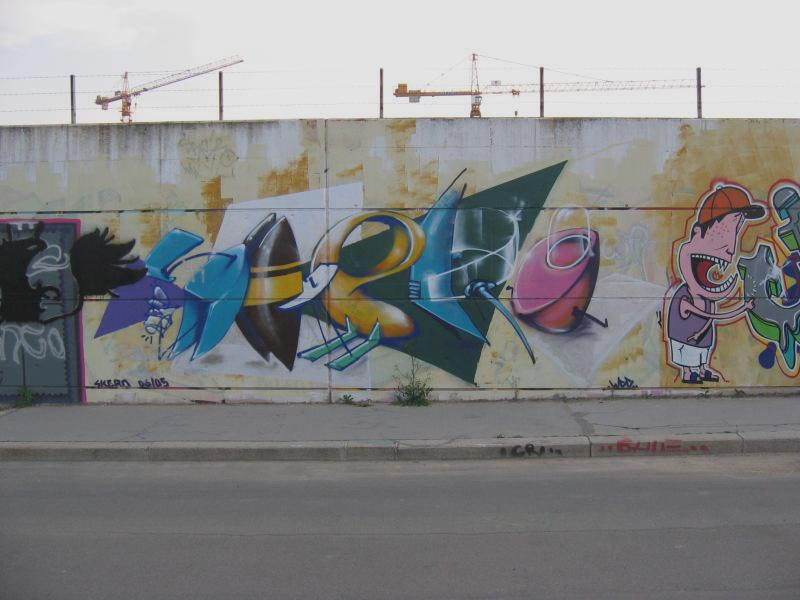 abstract graffiti @ a hall of fame in vienna